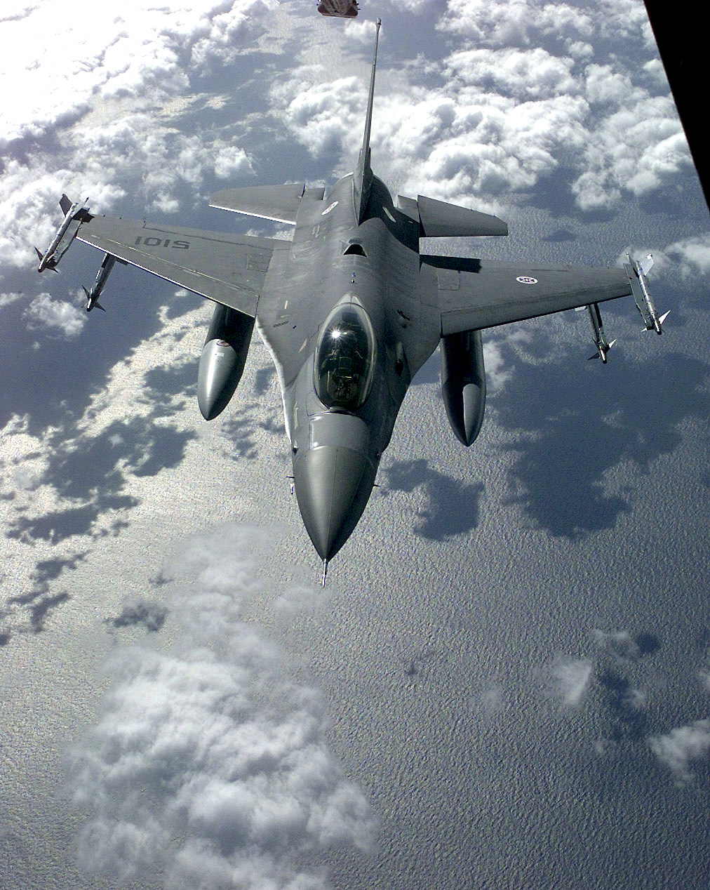 An F-16A from the Portuguese Air Force prepares to refuel from a KC-10 while deployed to a forward location in the European theatre on March 19th, 1999. This mission is in direct support of Joint Task Force 'Noble Anvil'.